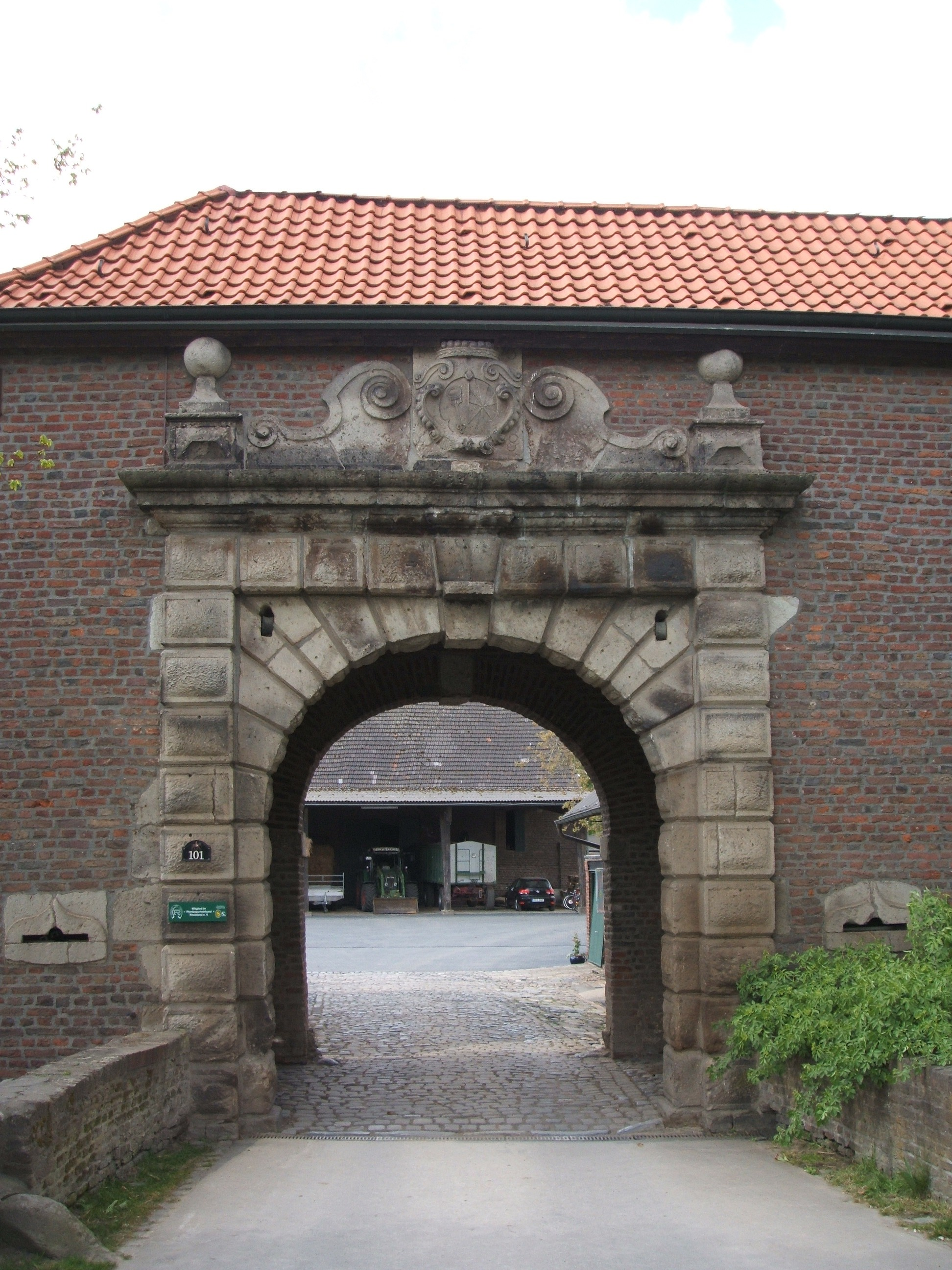 Portal of Groß-Winkelhausen